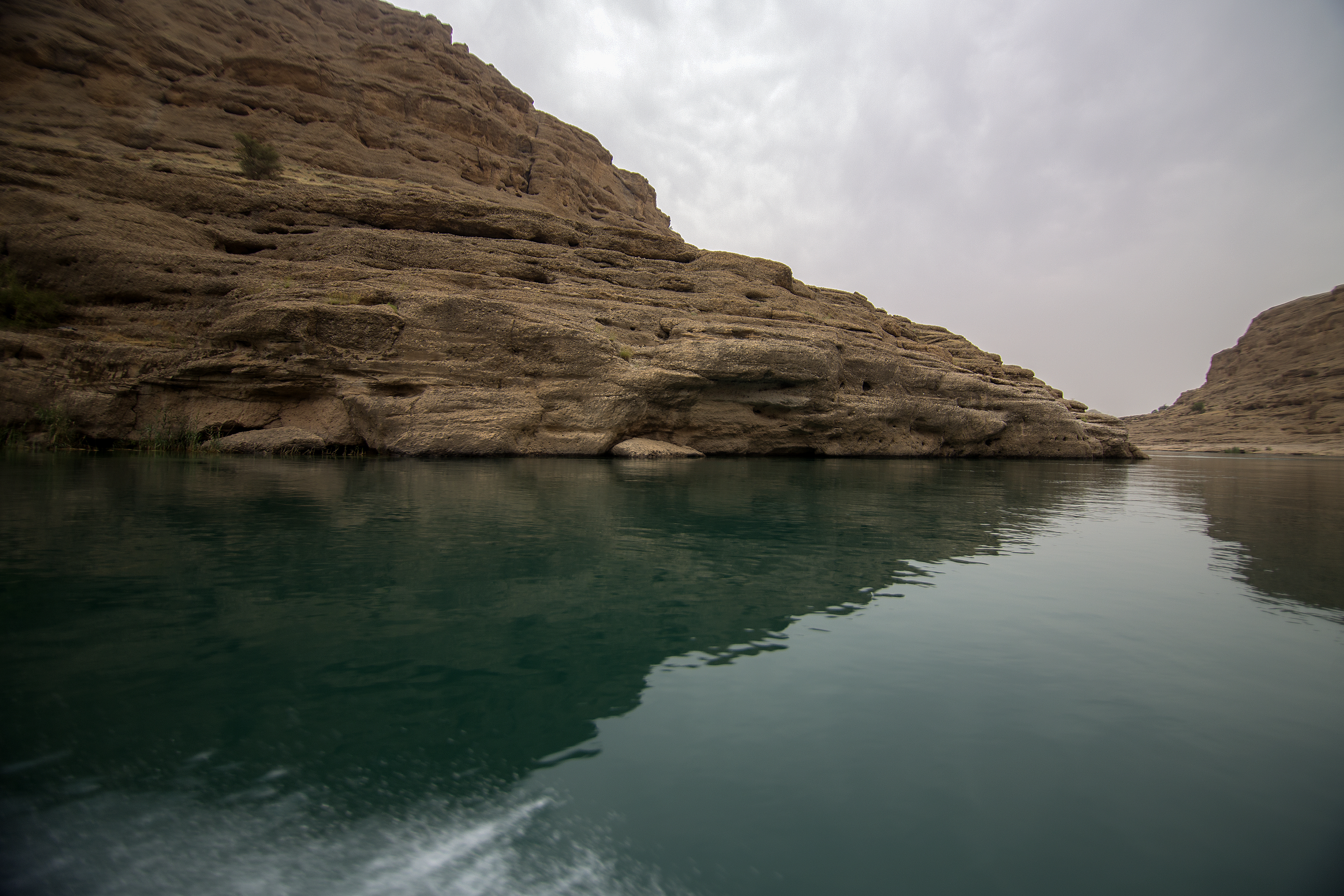 The Dez River (Persian: دز), the ancient Coprates (Greek: Κοπράτης or Κοπράτας), is a tributary of the Karun River and is 400 km long. It is the site of the Dez Dam.